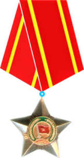 Vietnam For National Security Medal